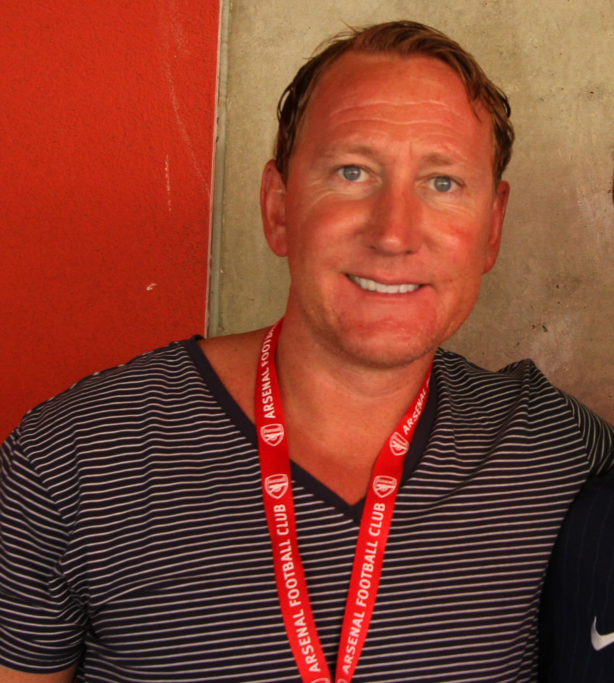 Ray Parlour & Robbie